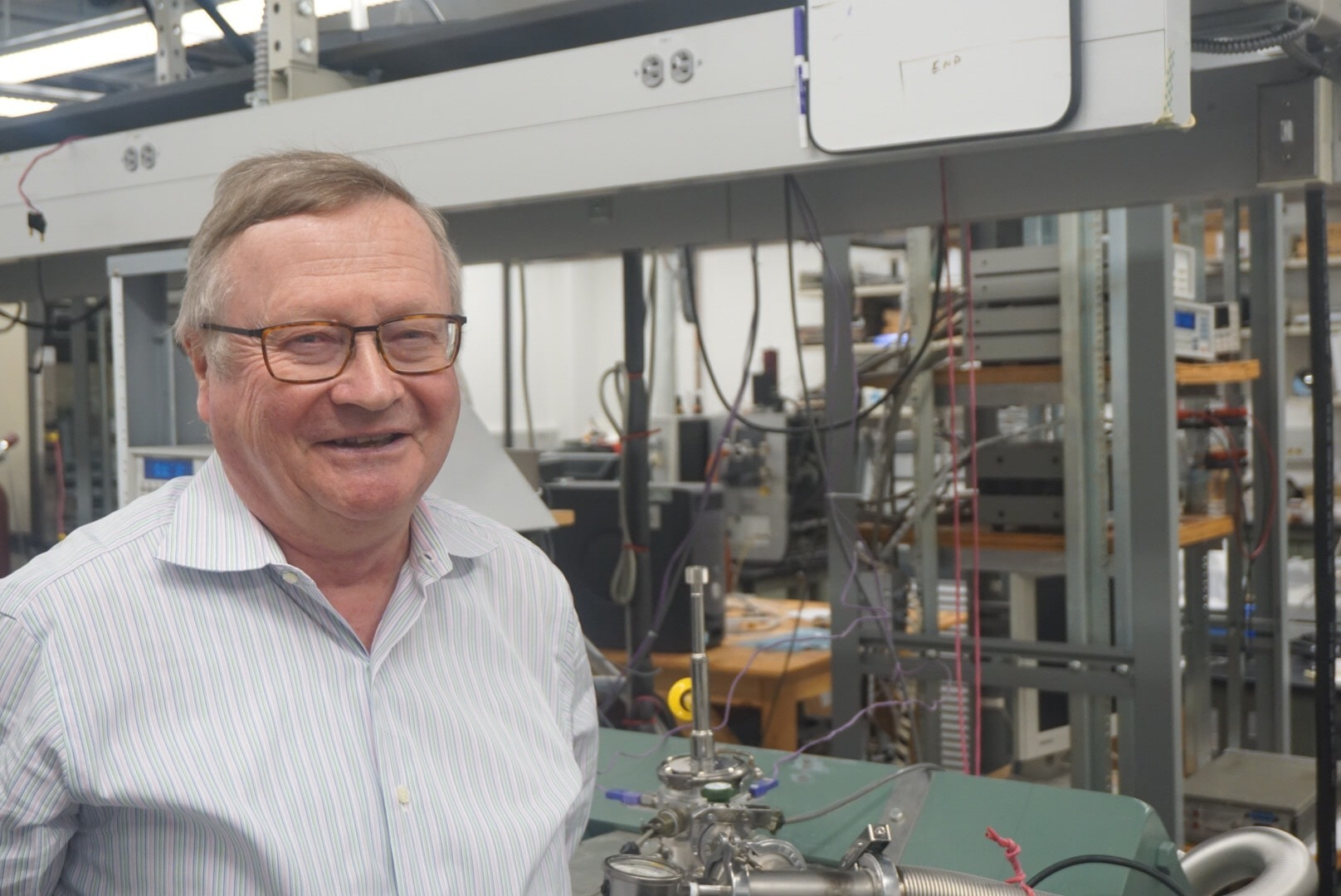 Prof. Joseph P. Heremans in His Lab with the Cryostat.